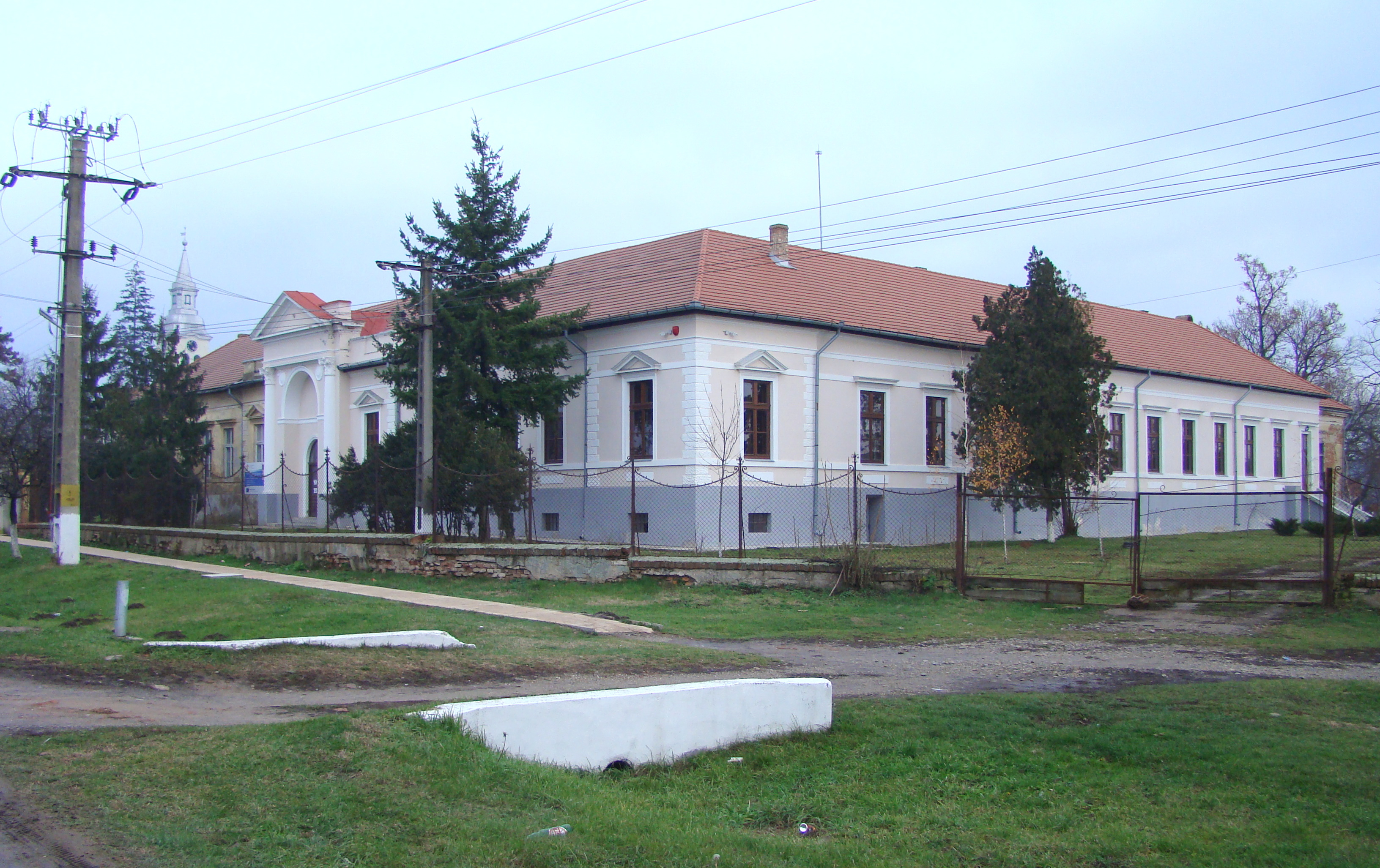 Zichy castle in Diosig, Bihor county, Romania